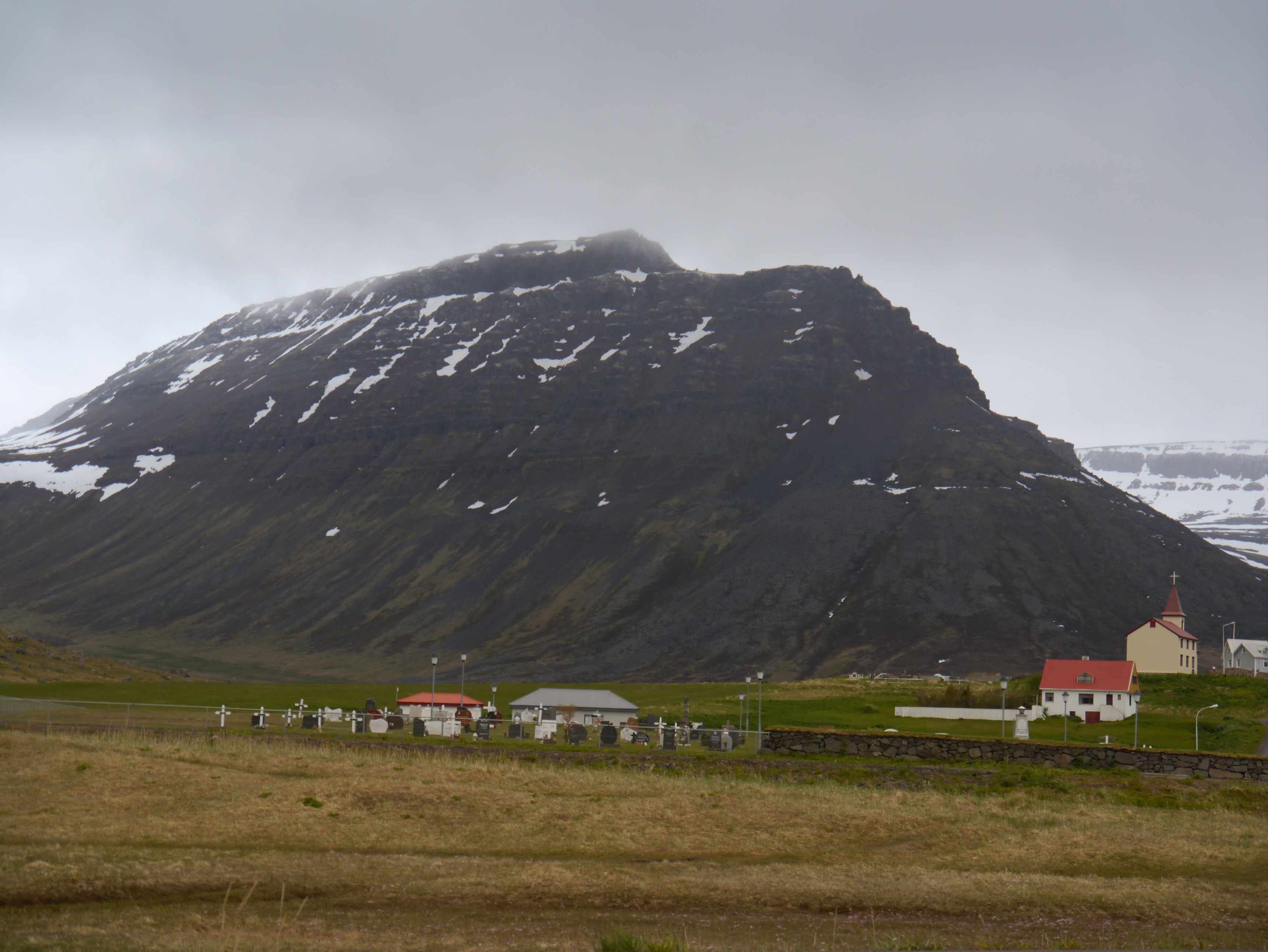 Bolungarvík, Icelandic Westfjords